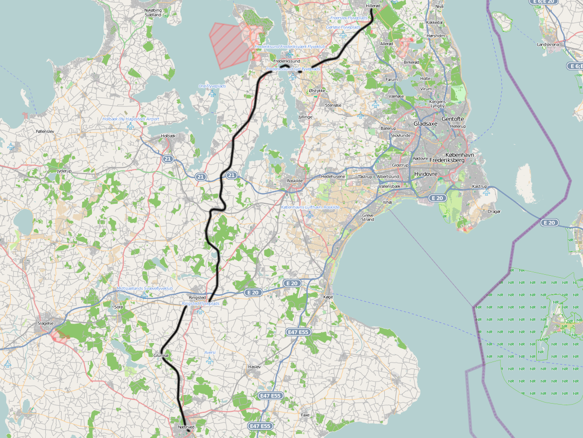 Railway line Næstved - Hillerød